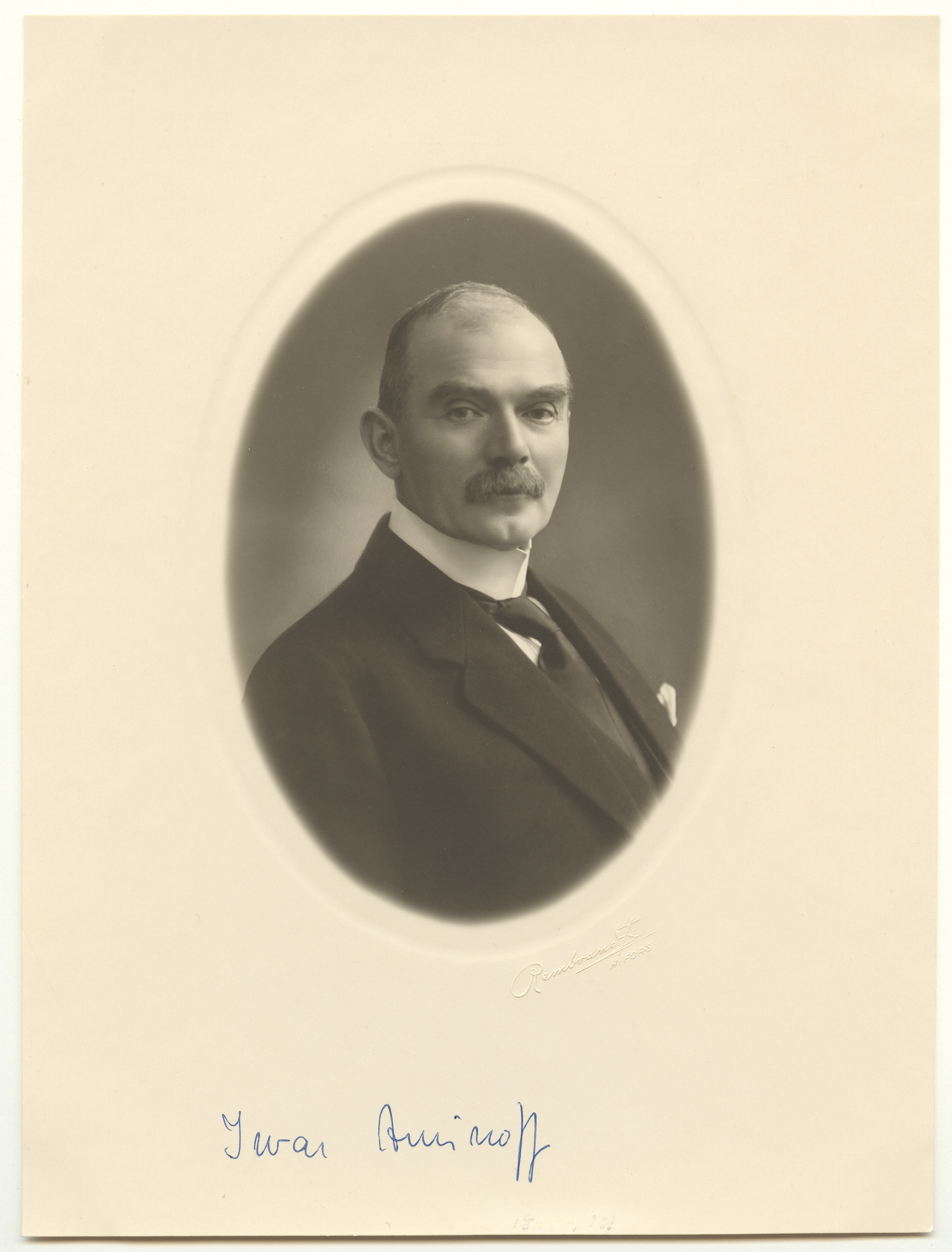 Photograph of the Finnish lawyer and politician Iwar (Ivar) Aminoff (1868–1931).